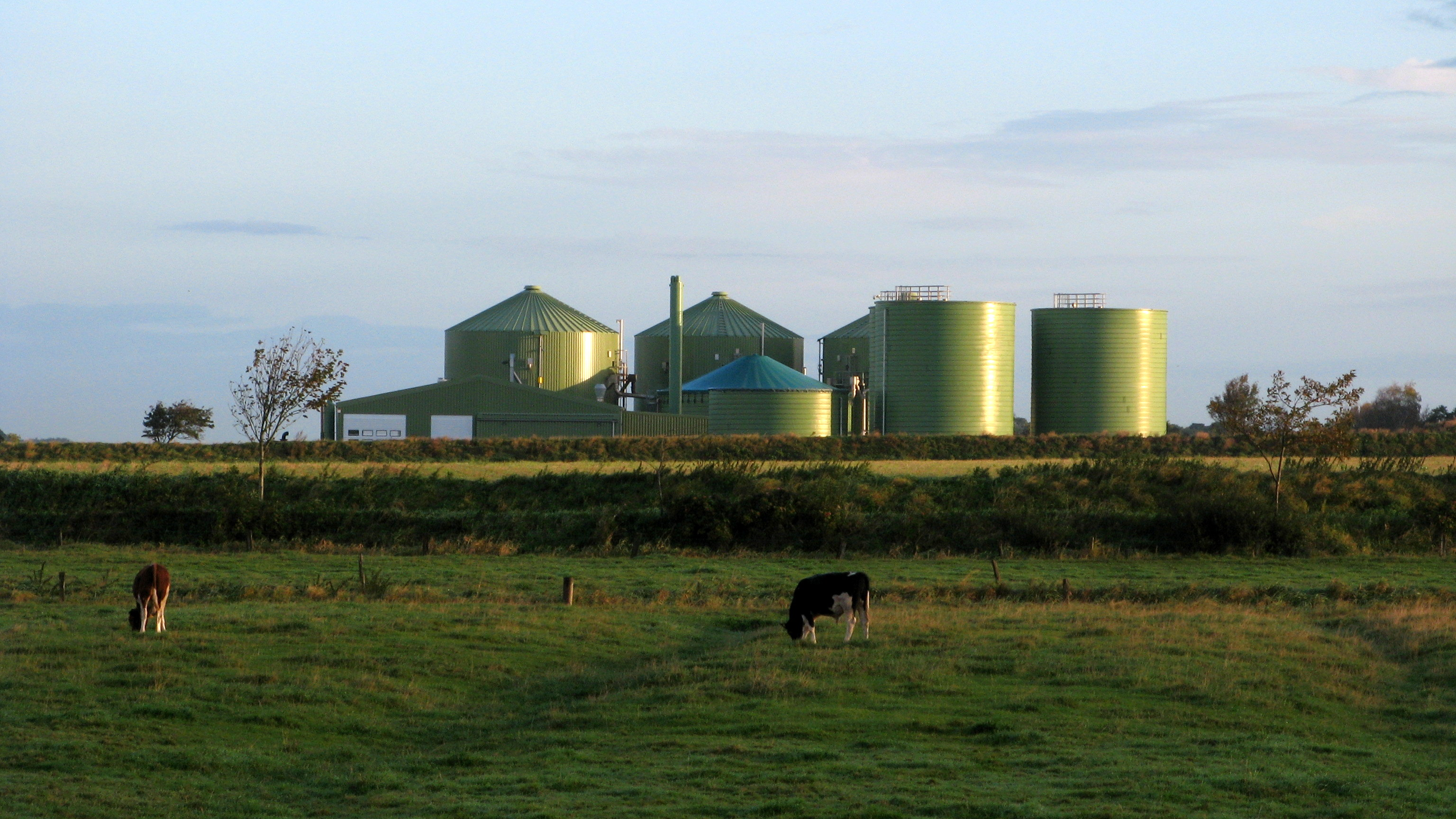 Biogas in Lohe-Rickelshof, Holstein, Germany